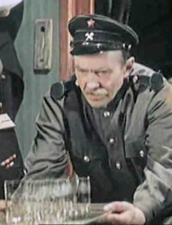 Vasily Vanin as a conductor in The Train Goes East (1947)